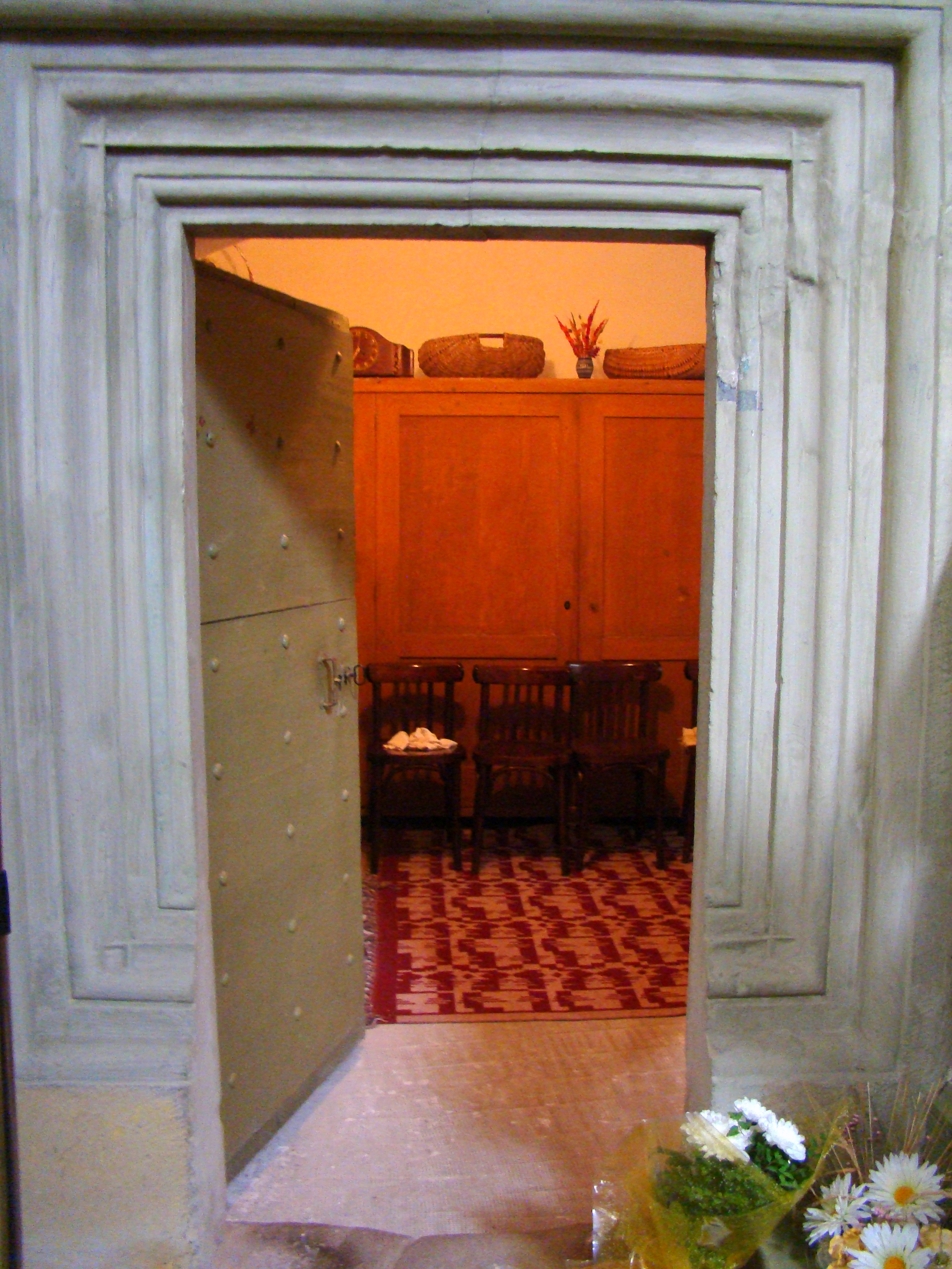 Lutheran church in Râșnov, Braşov County, Romania